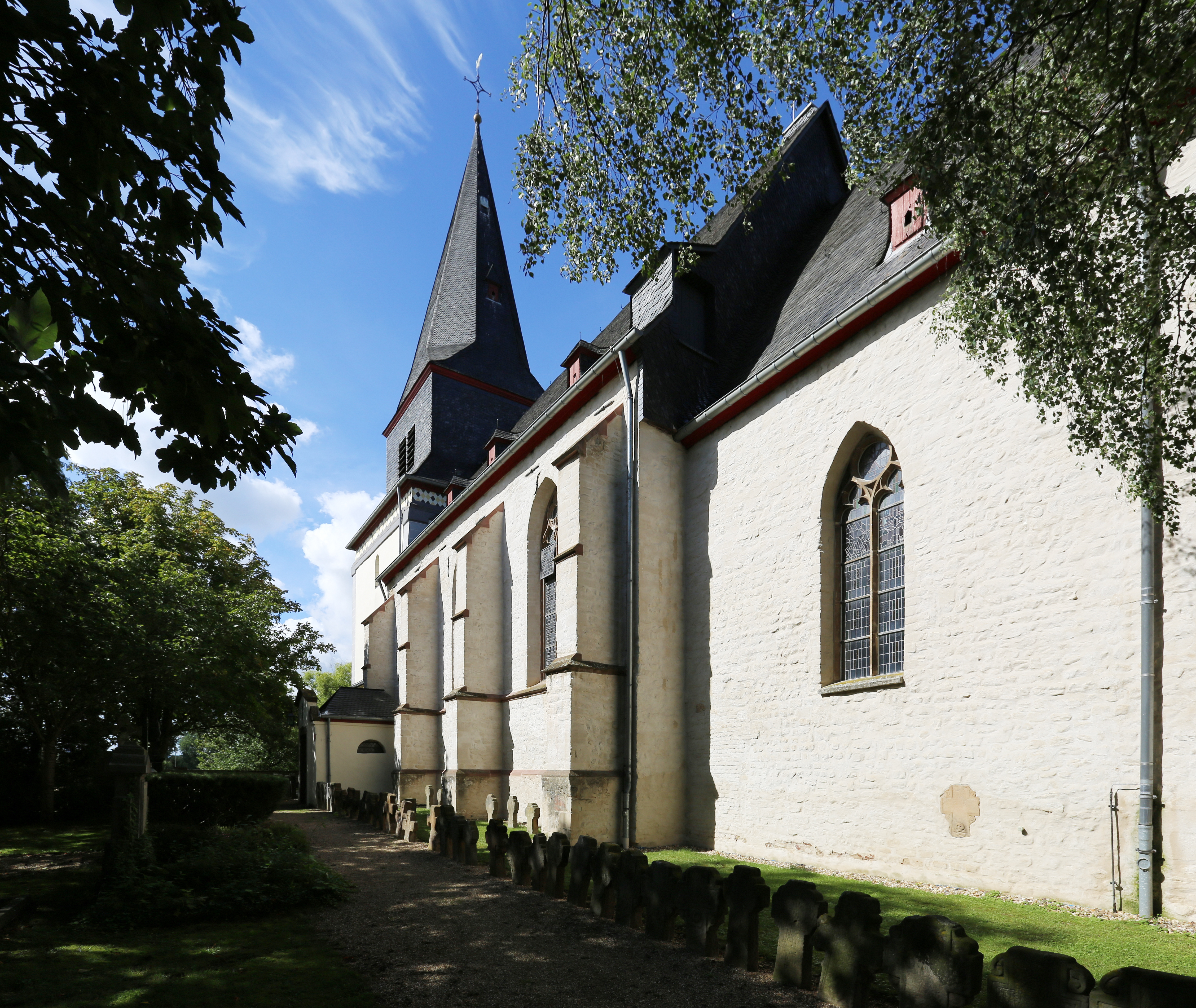 Medieval church St. Viktor, Hochkirchen, a quarter of Nörvenich, Germany